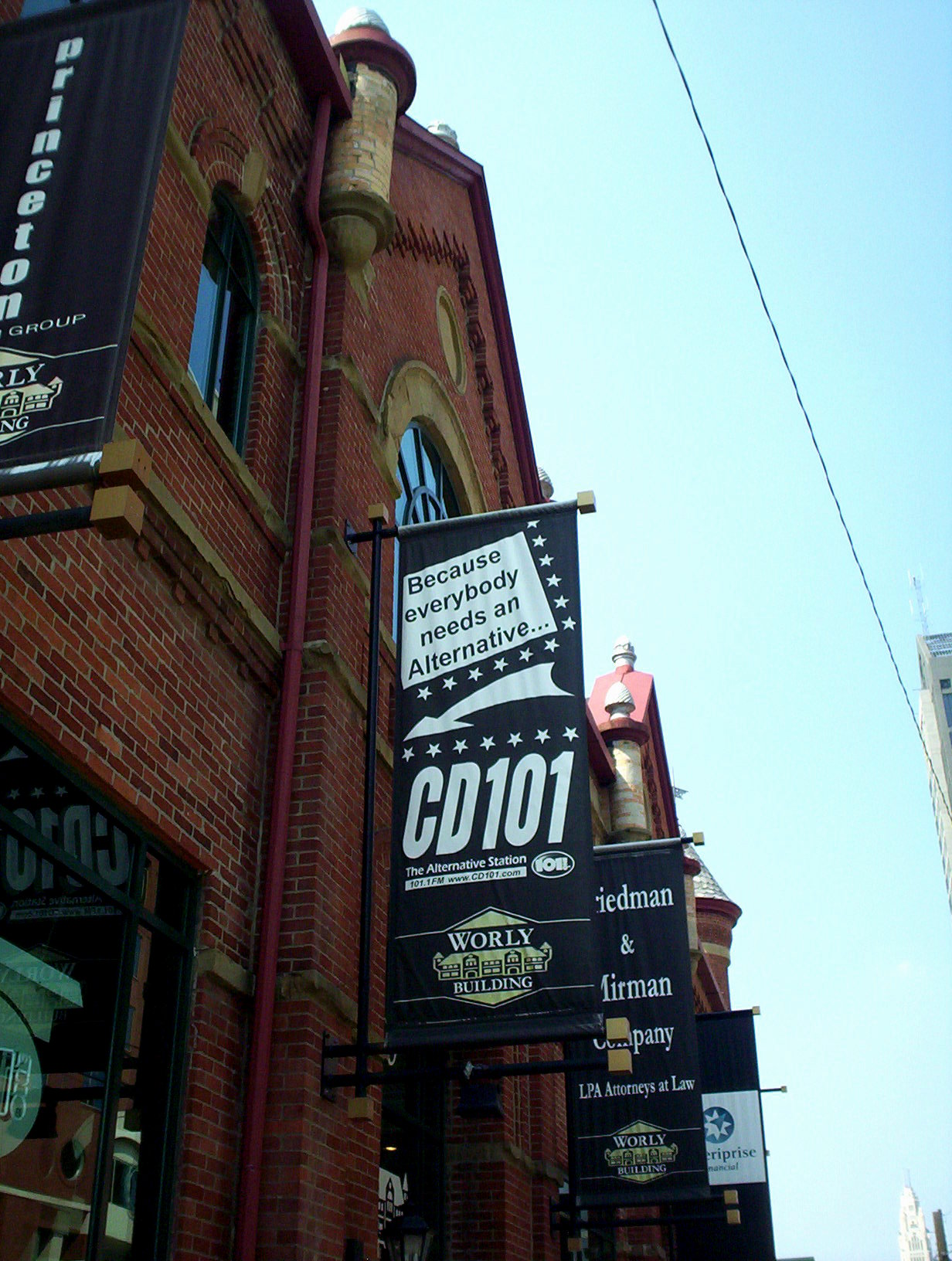 Worly Building. Home of CD 101.